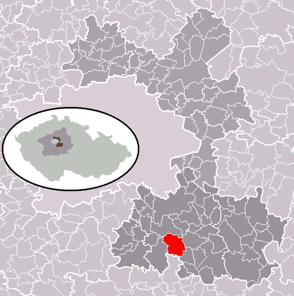 Location of Kunice municipality within Prague-East District and administrative area of Říčany as a Municipality with Extended Competence.